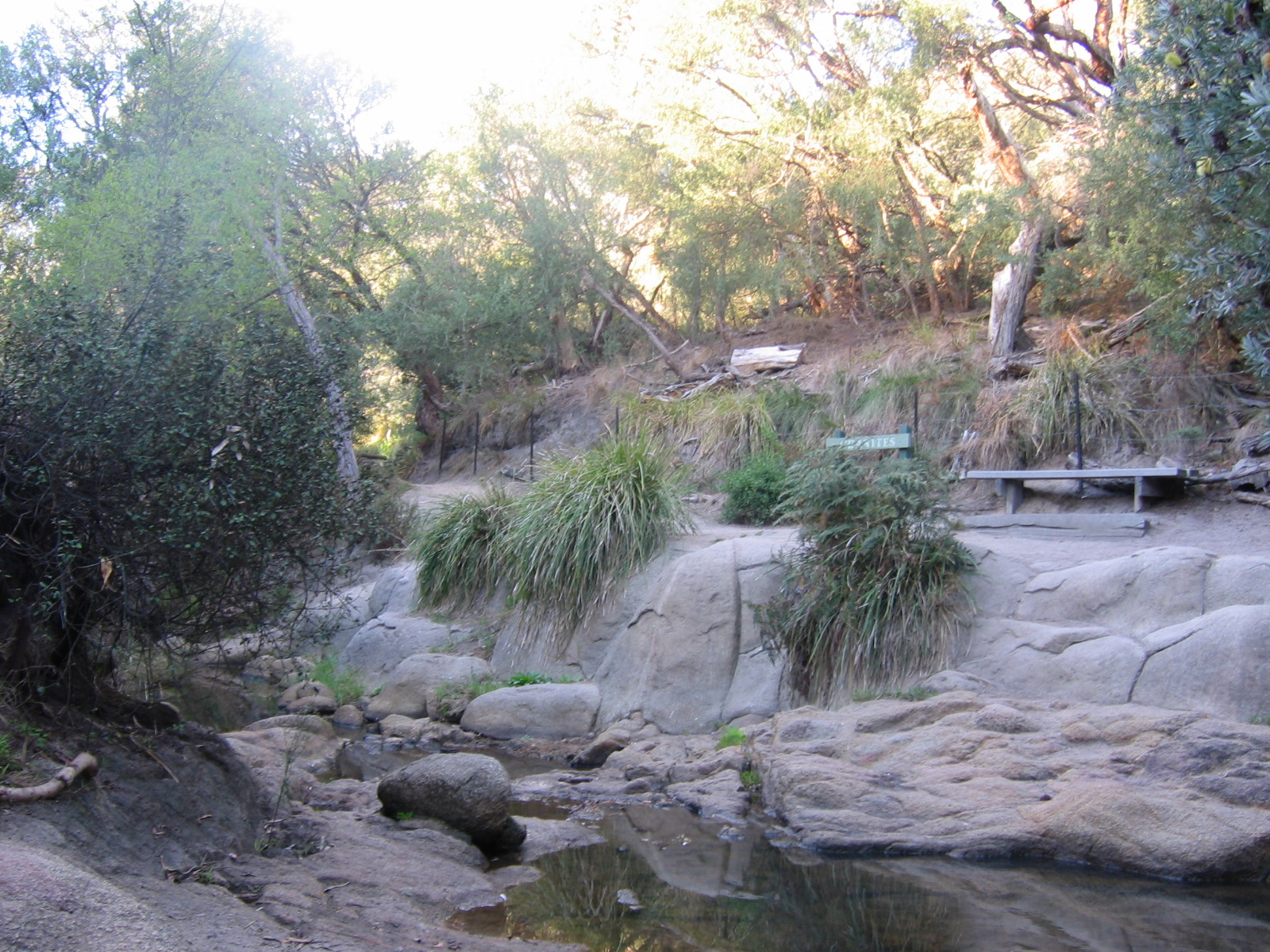 Granite rock formation in Sweetwater Creek Reserve.